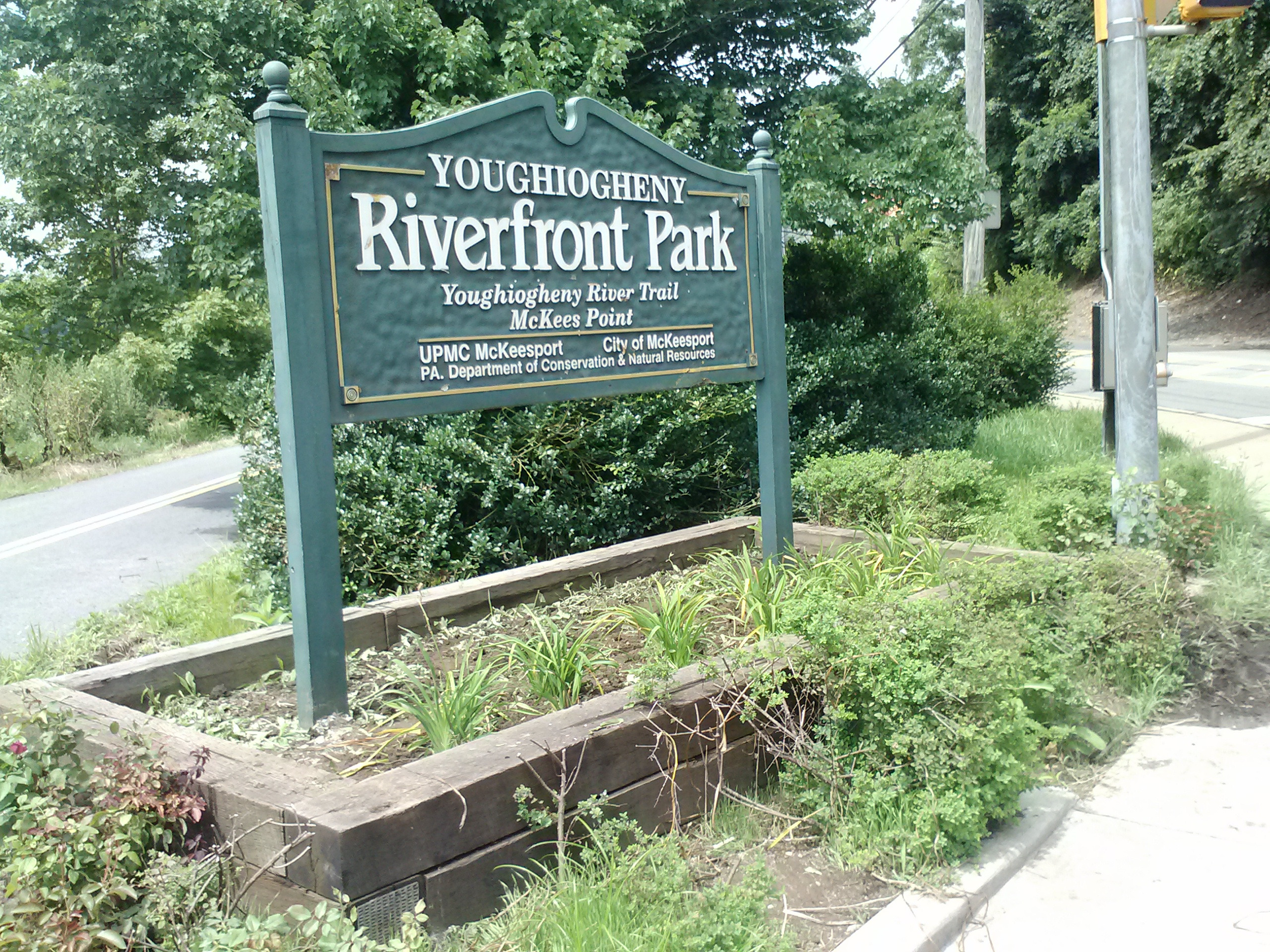 Riverfront trail sign in McKeesport Pennsylvania